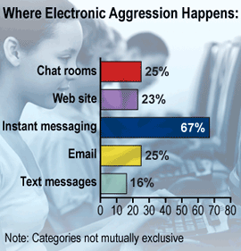 A graph showing where electronic aggression occurs.